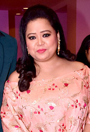 Bharti Singh in 2017